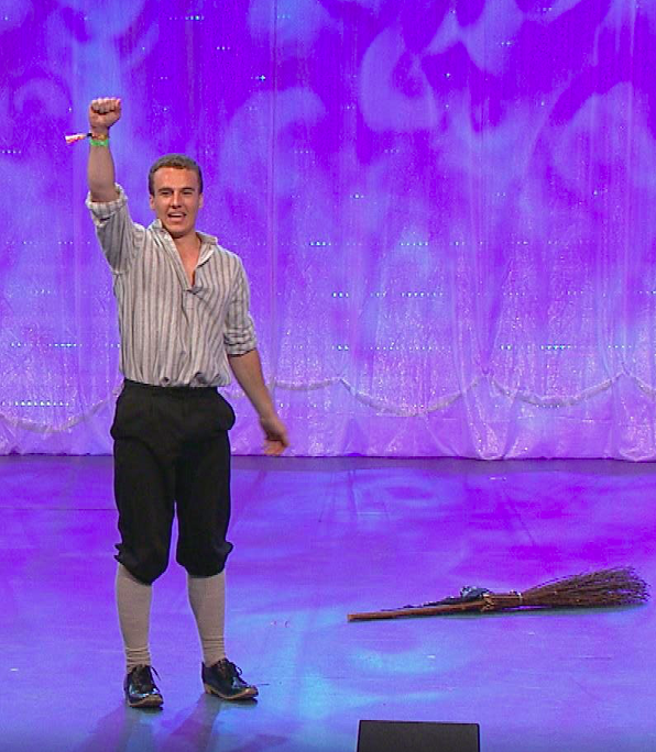 dawnsiwr Bodedern